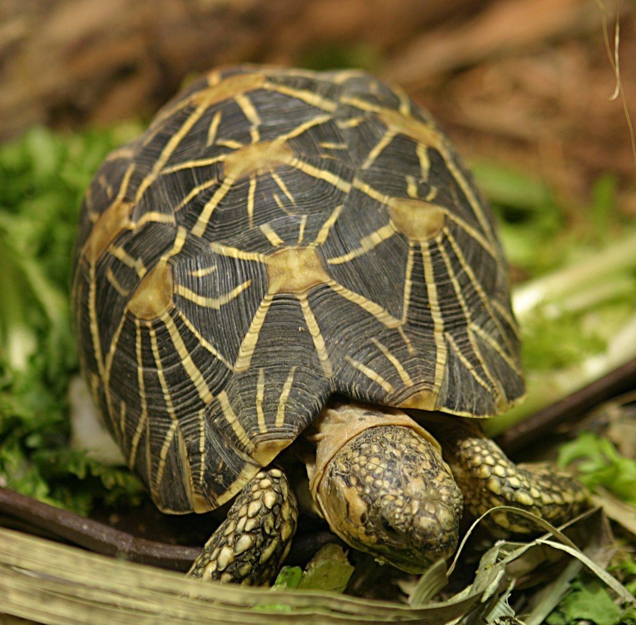 Geochelone elegans Indian Star Tortoise at the Houston Zoo